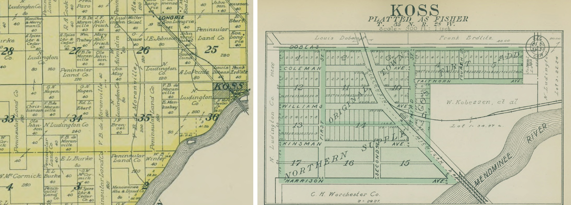 Map detail of Koss, Michigan. From Standard Atlas of Menominee County, Michigan: Including a Plat Book of the Villages, Cities and Townships of the County. 1912. Chicago: Geo. A. Ogle & Co.